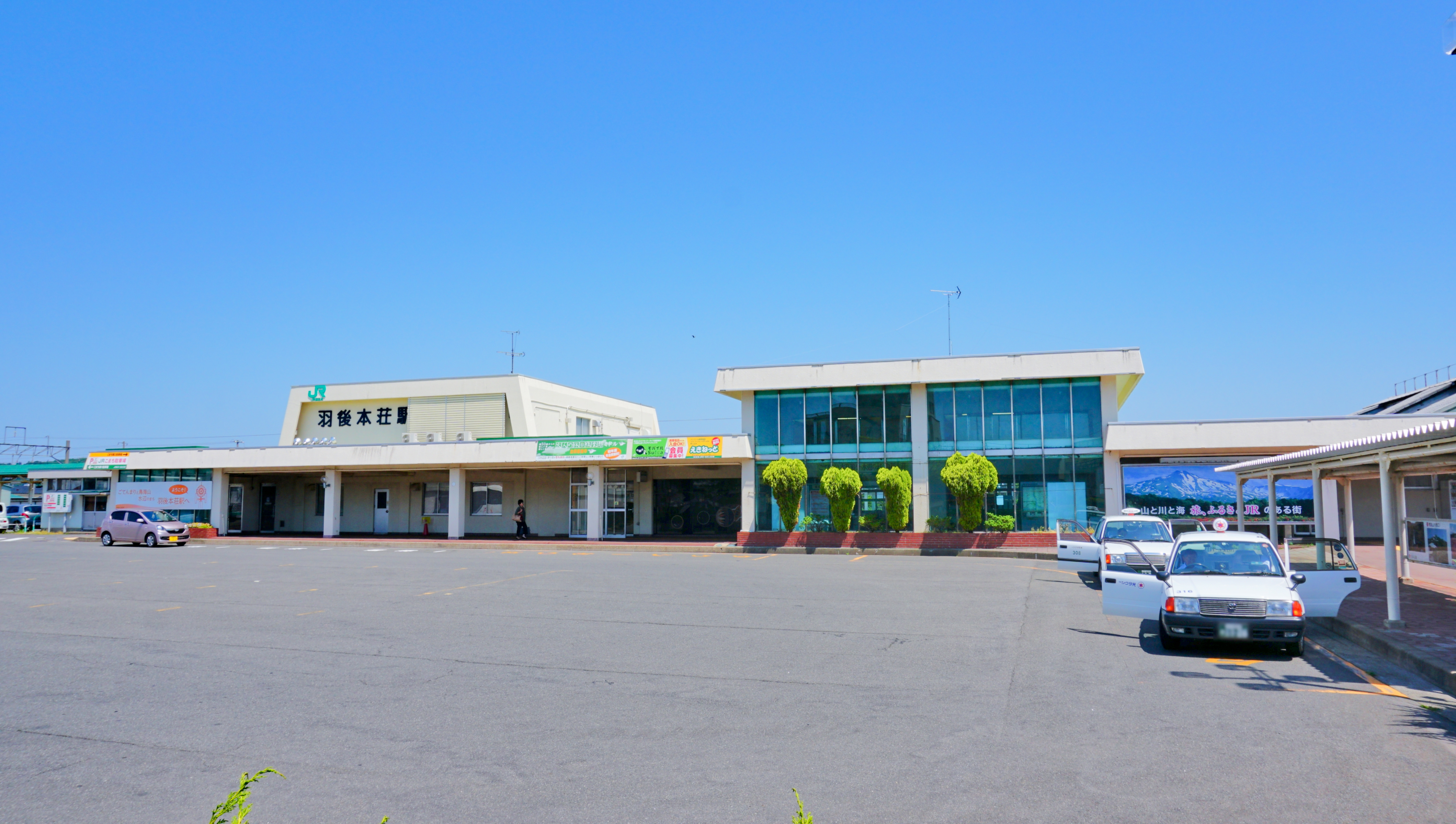 Ugo-Honjo Station operated by East Japan Railway and Yuri Kogen Railway